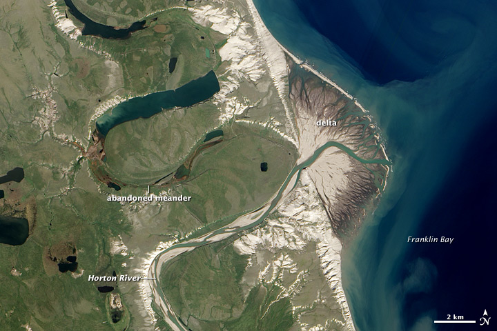 Horton River Delta in northwestern Canada